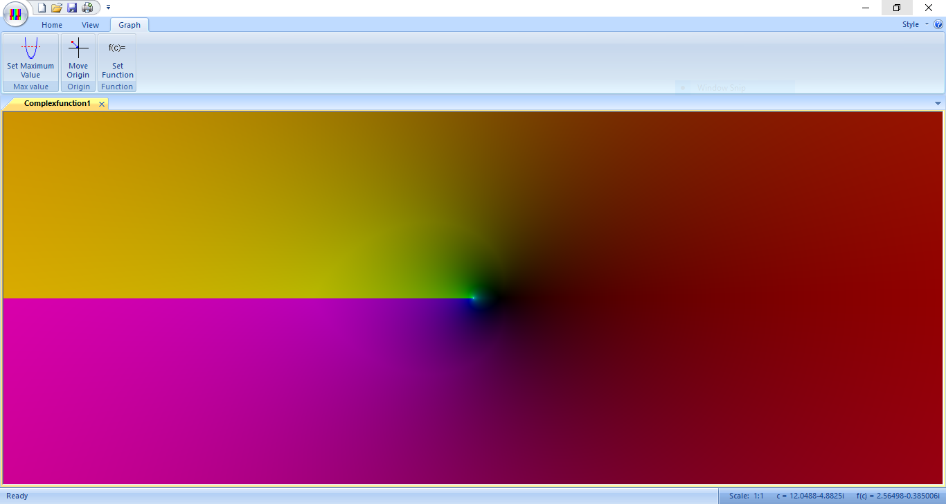 A hue/brightness graph of the complex natural logarithm.